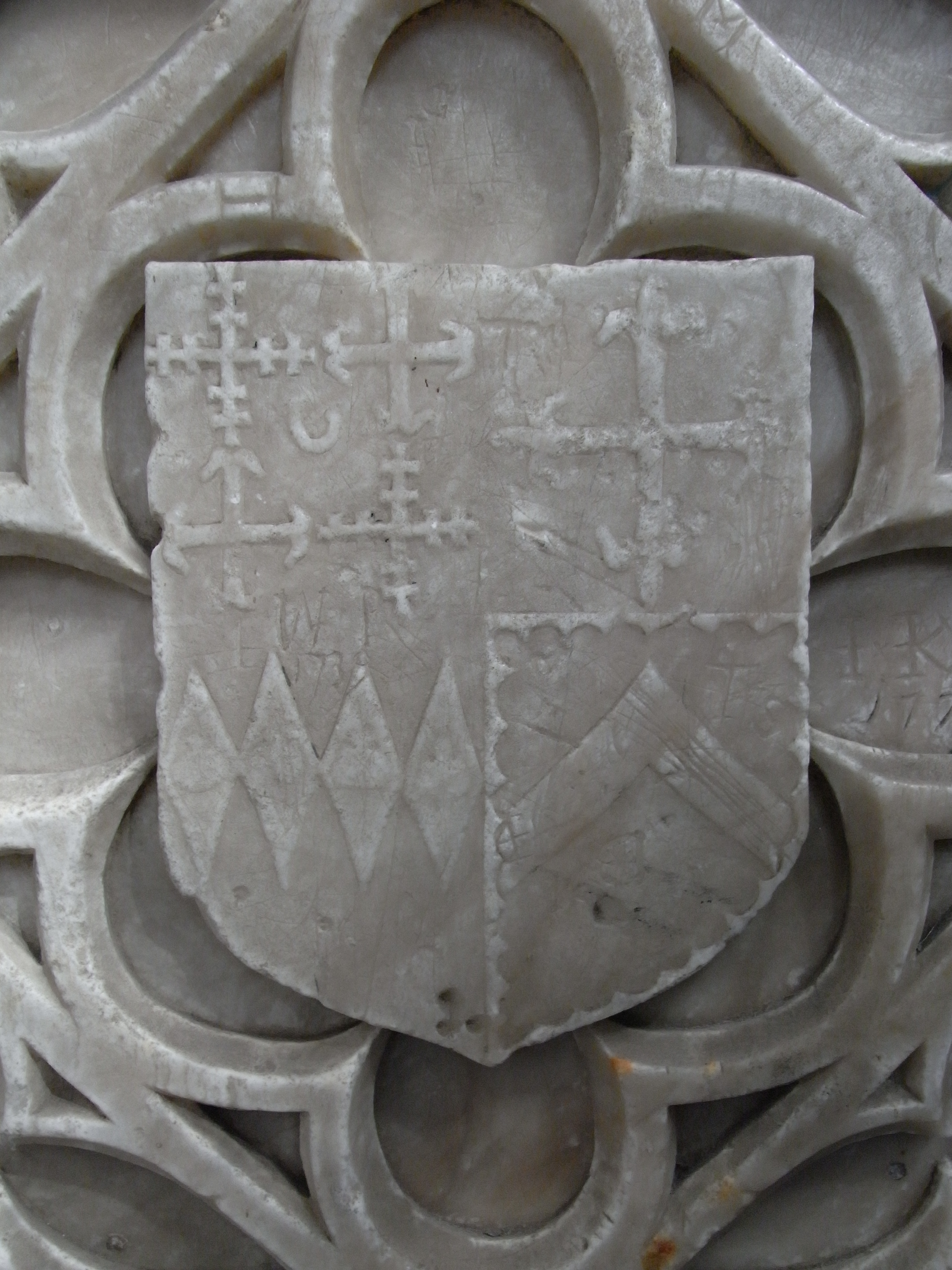 Arms of Robert Willoughby, 1st Baron Willoughby de Broke(d.1502), sculpted in alabaster on his tomb at Callington Church, Cornwall. One of six similar Escutcheons of Robert Willoughby, some shown within the cordon of the Order of the Garter, on his tomb at Callington, blazoned: Quarterly, 1st grand quarter quarterly, 1st and 4th: Sable, a cross engrailed or (Ufford, here shown as a cross crosslet double crossed; The Bere Ferrers bench ends, where perhaps the wood disallows great detail in carving, shows not a cross engrailed but rather a thick plain cross); 2nd and 3rd: Gules, a cross moline argent (Beke); a crescent superimposed on the fess-point for difference; 2nd grand quarter, a cross fleurie (Latimer, possibly Paveley of Broke) 3rd grand quarter, 4 fusils in fess each charged with an escallop (Cheyne) 4th grand quarter, Or, a chevron gules a bordure engrailed sable (Stafford of Hooke and Southwick); Alice Stafford, daughter of Sir Humphrey Stafford (d.1442) of Southwick, Wilts and Hook, Dorset, "With the Silver Hand", married Sir Edmond Cheney, of Broke, Wilts, and by him had two daughters, Elizabeth Cheney and Anne Cheney, the latter of whom was the mother of Robert Willoughby.